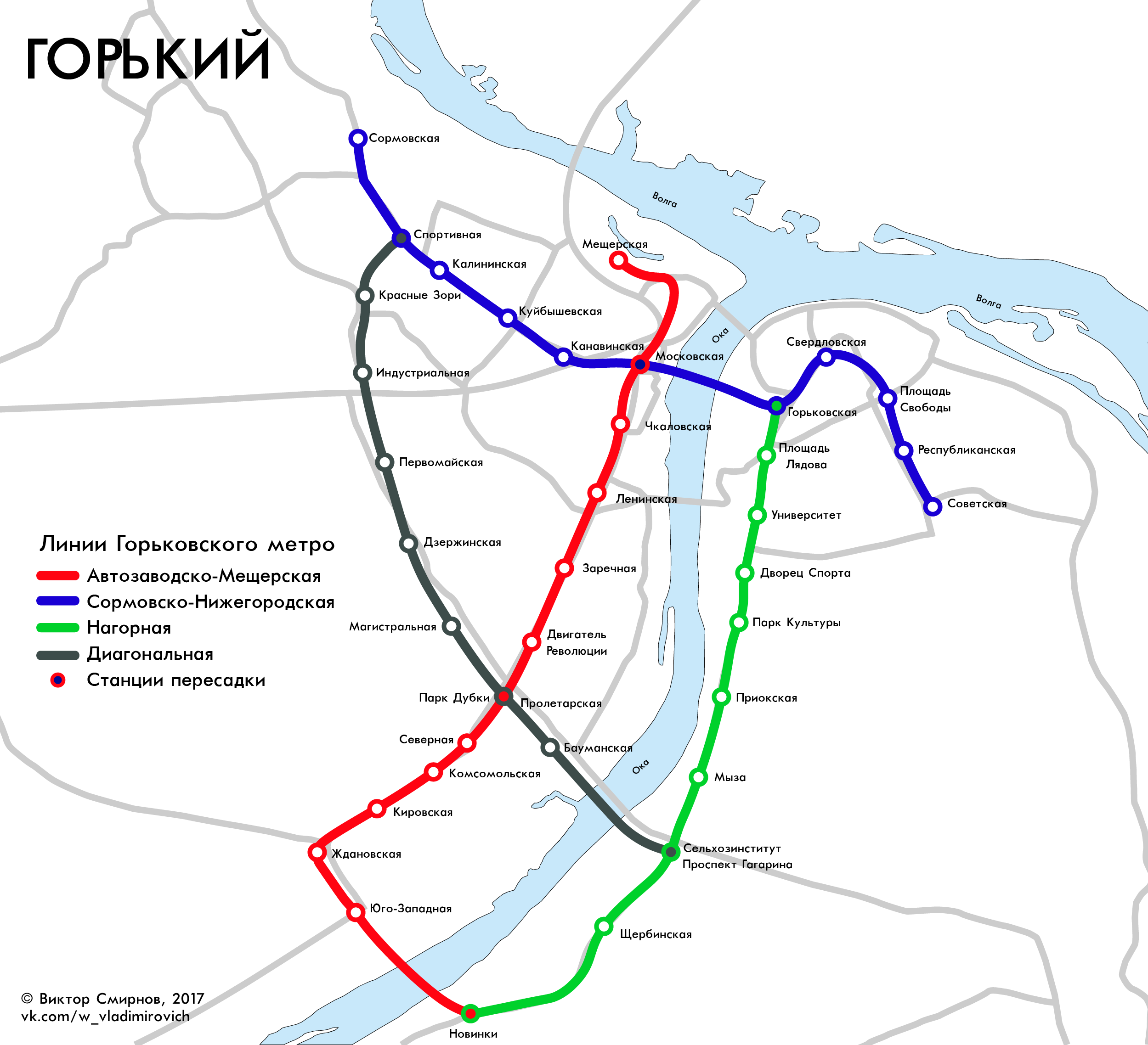 The scheme of the Gorky metro (1982)